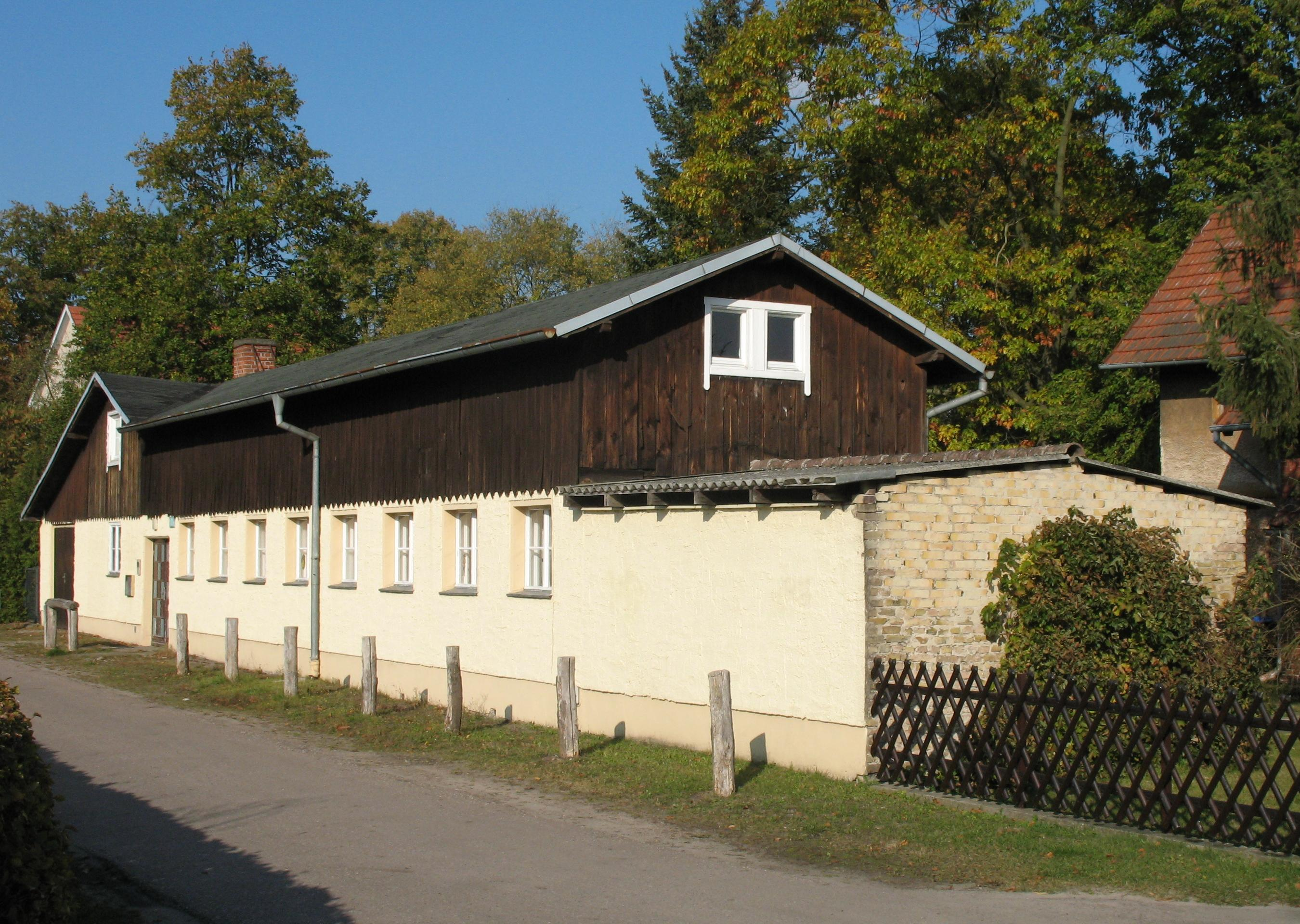 Former Youth Hostel in Oranienburg in Brandenburg, Germany